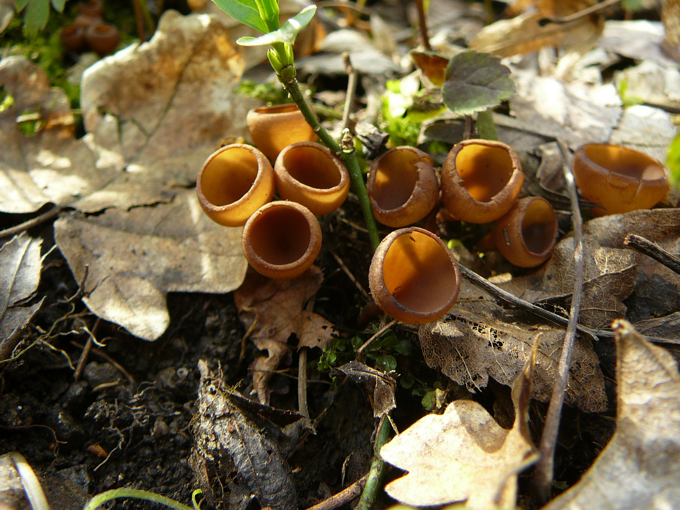 Dumontinia tuberosa (Sclerotinia tuberosa) in a wood in Prague, the Czech Republic.